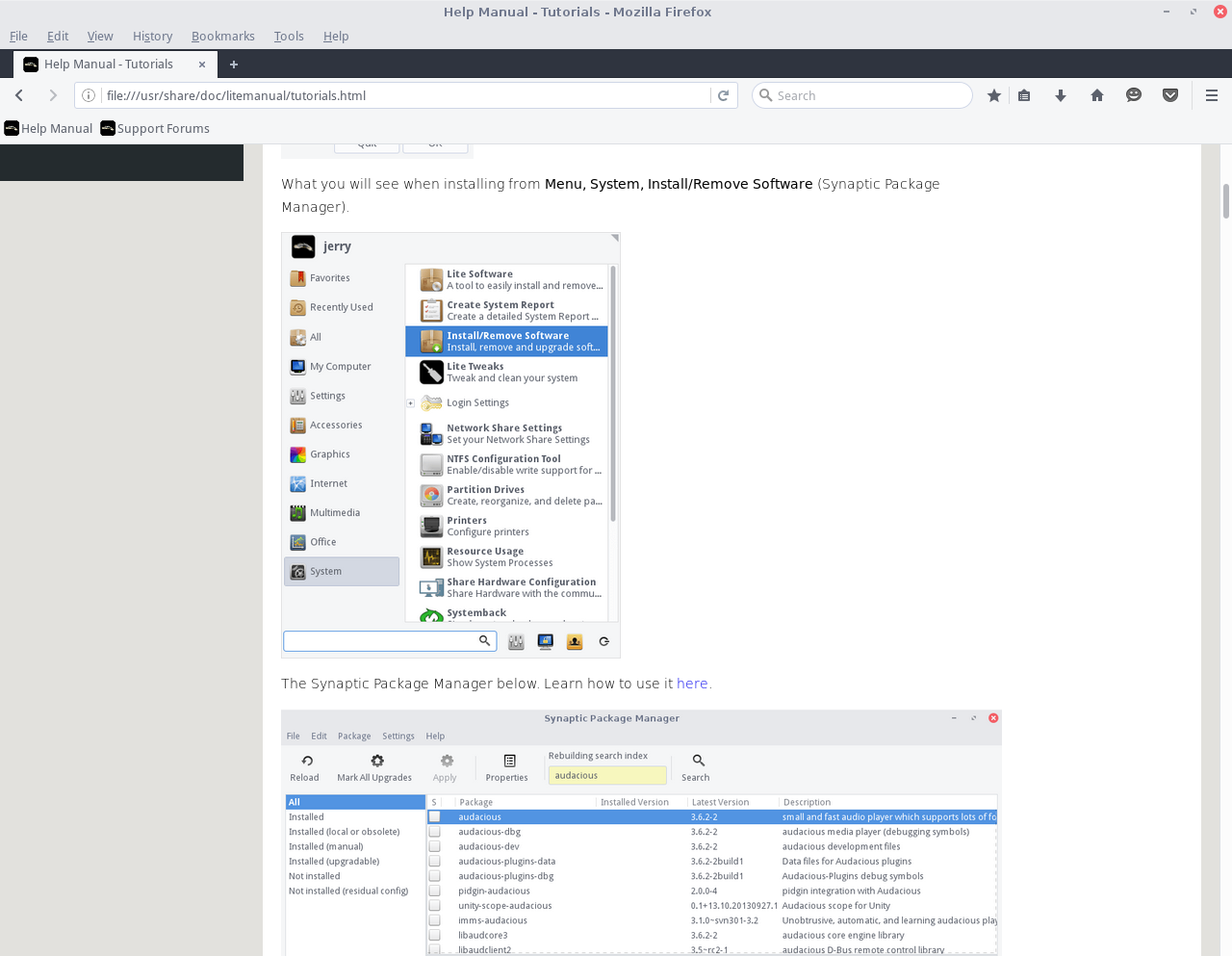 A detail of the online help of Linux Lite 3.0.